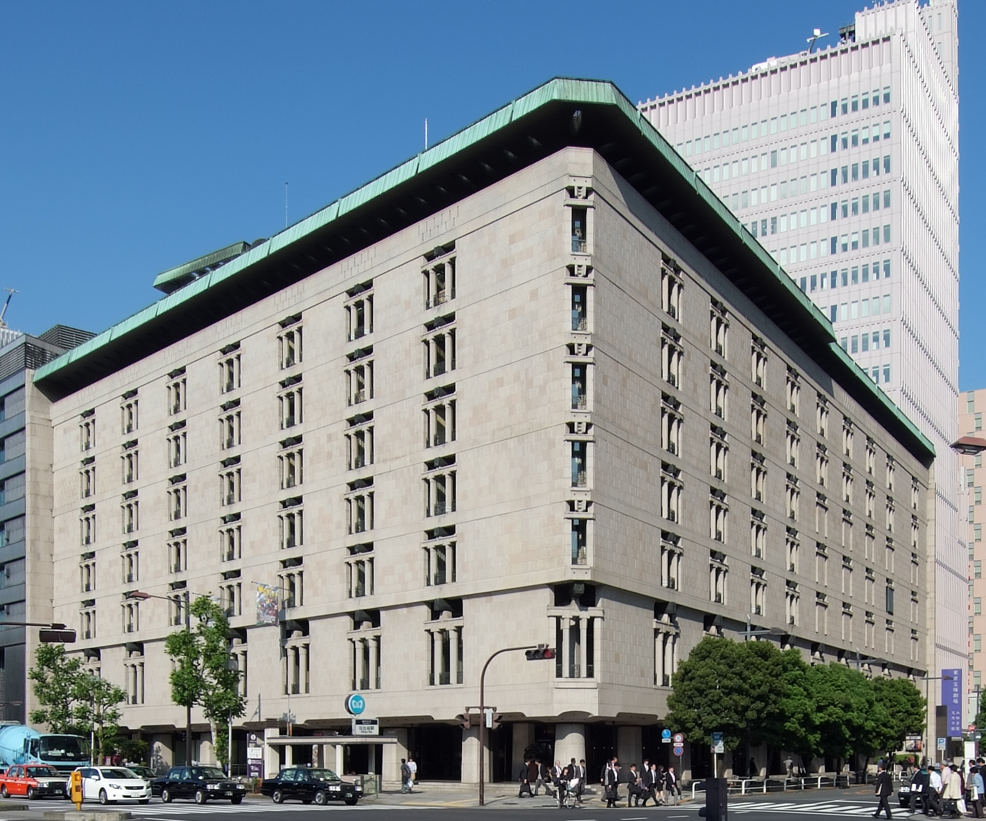 Nissay Theatre, at Hibiya Tokyo Japan, design by Togo Murano in 1963.